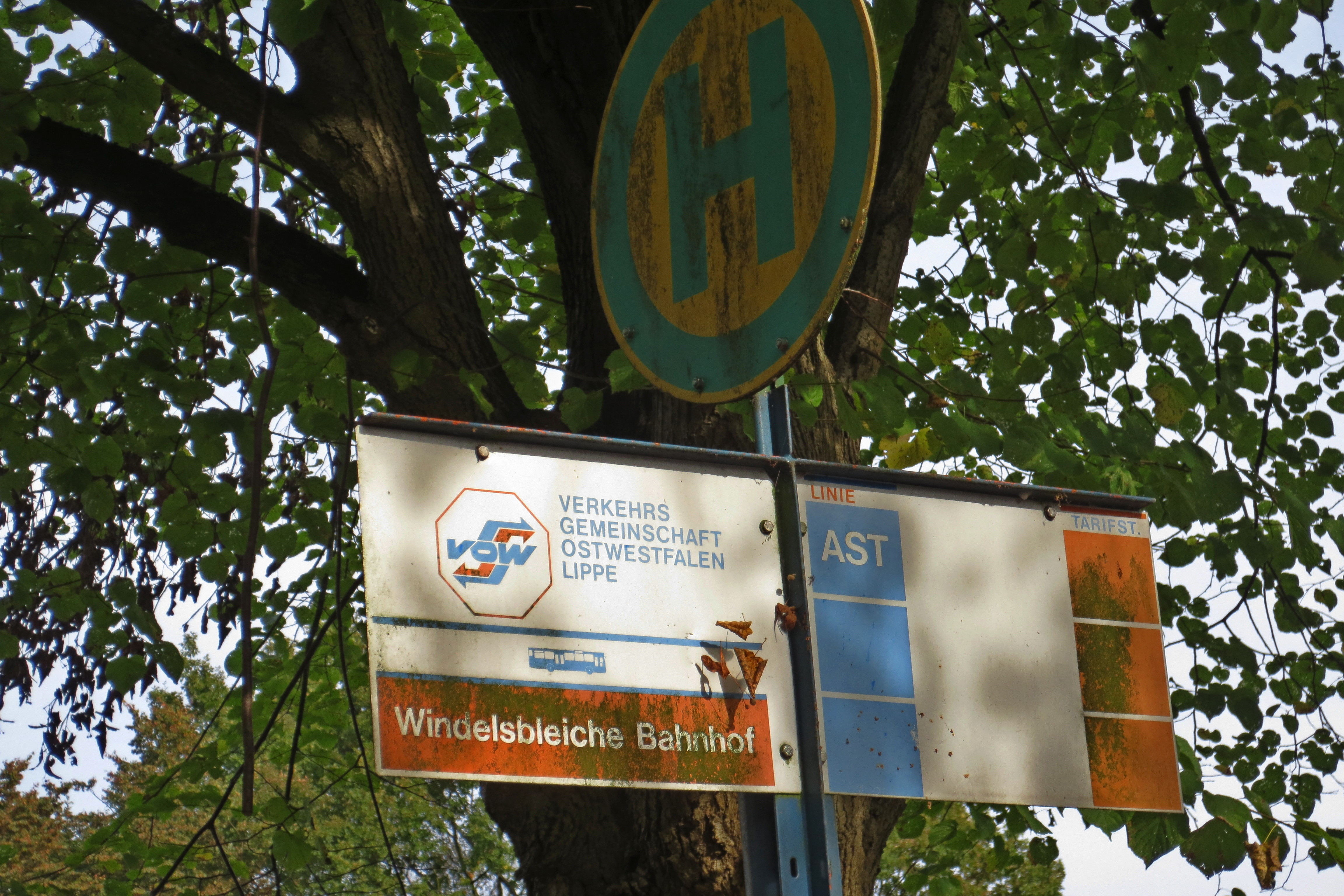 Historic busstop in Bielefeld from the 1990-jears.